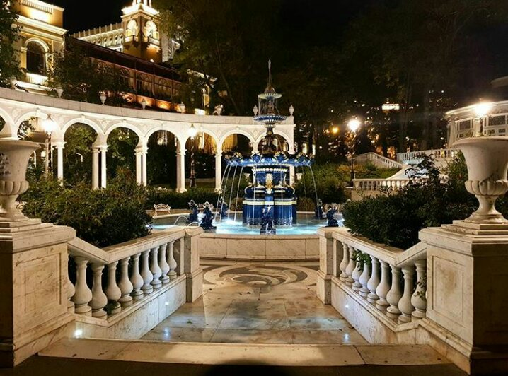 Philharmonic garden in Baku